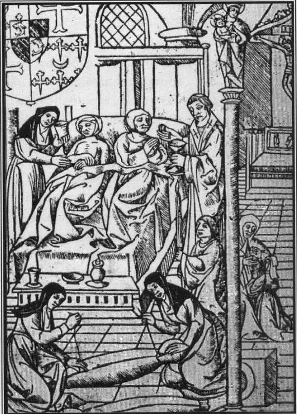 Hôtel Dieu in Paris, about ad 1500. The priest on the right is issuing the last sacraments, while a nun administers to the patient on the left. Patients often slept two, three and even four to a bed, greatly increasing the rate of cross-infection. Note the nuns at the foot of the bed sewing up the shroud of a patient who probably recently shared the same bed as the patients above.